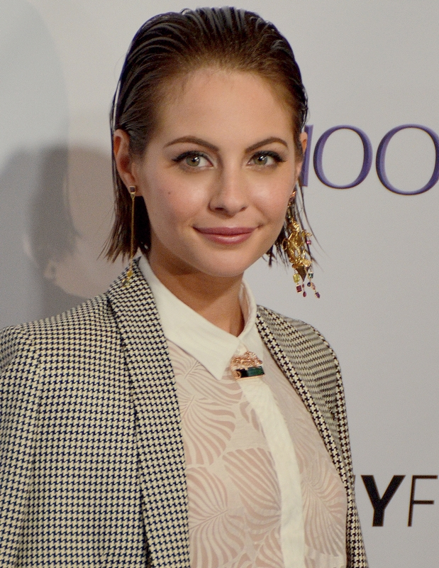 Actress Willa Holland at the PALEYFEST 2015 LA honoring Arrow and The Flash at The Dolby Theatre